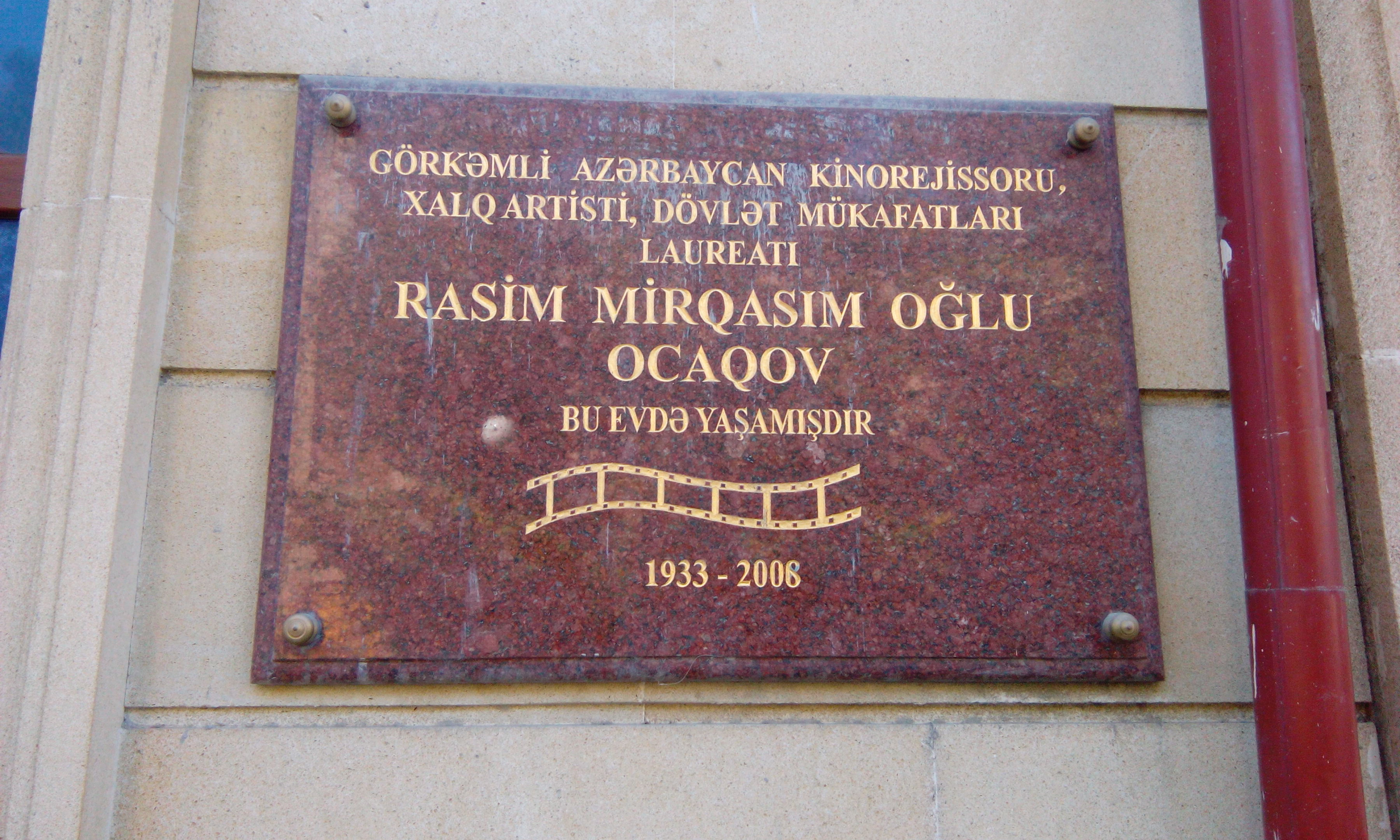 Plaque on building where Azerbaijani film director and director of photography Rasim Ojagov lived in Shaki, Azerbaijan